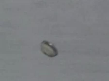 The Genesis sample return capsule tumbles to Earth only moments before it crashed.